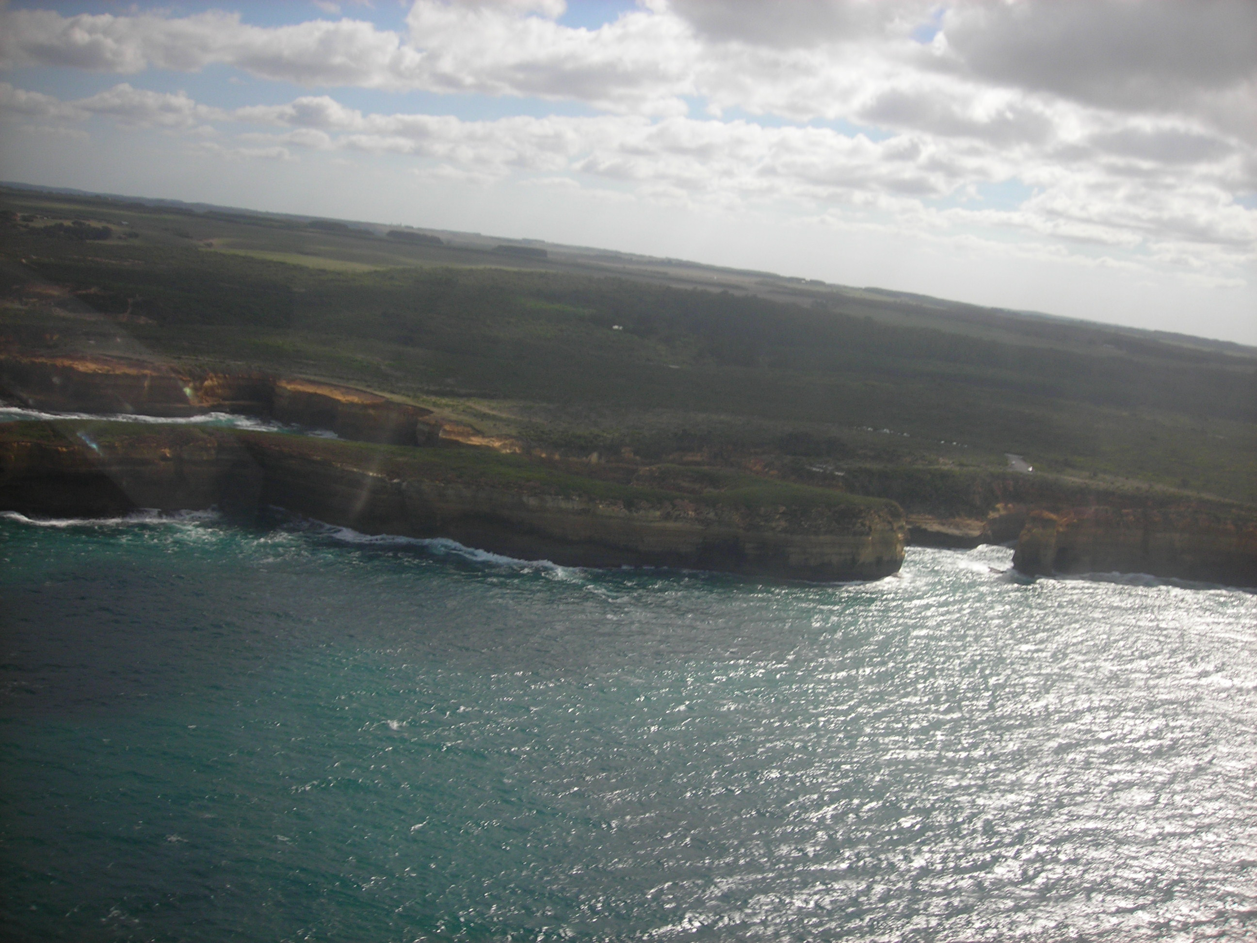 Arial view of Port Campbell National Park, Victoria, Australia